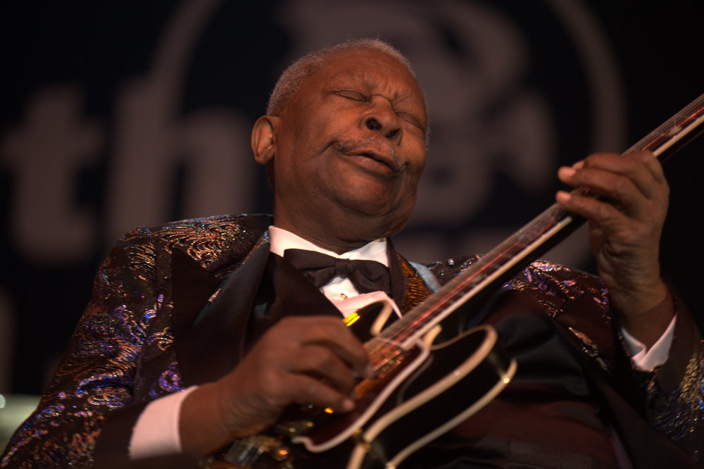 Famed blues guitarist B.B. King in a 2009 performance